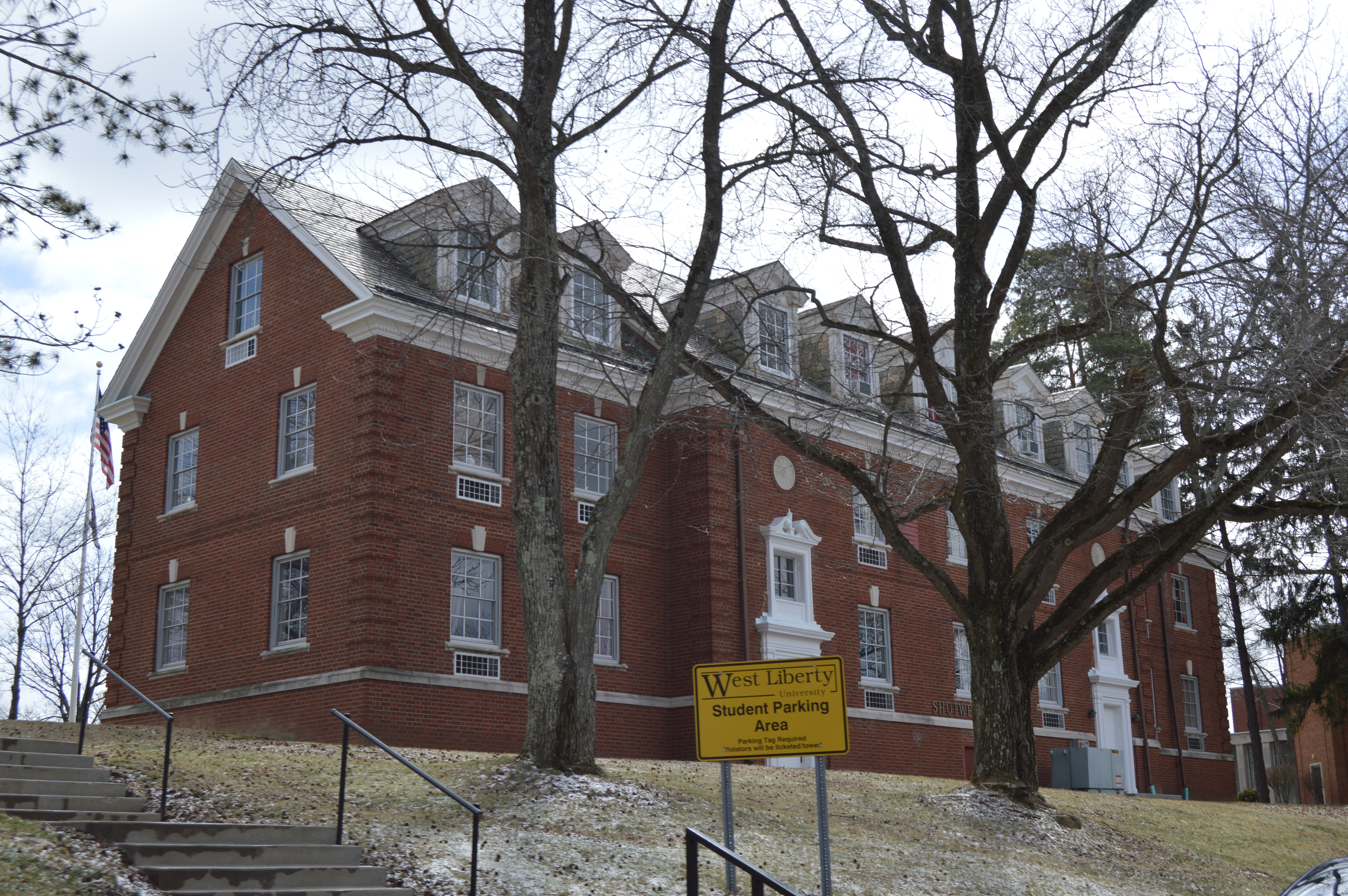 Front of Shotwell Hall on the campus of West Liberty University in West Liberty, West Virginia, United States. Built in 1937, it is listed on the National Register of Historic Places.